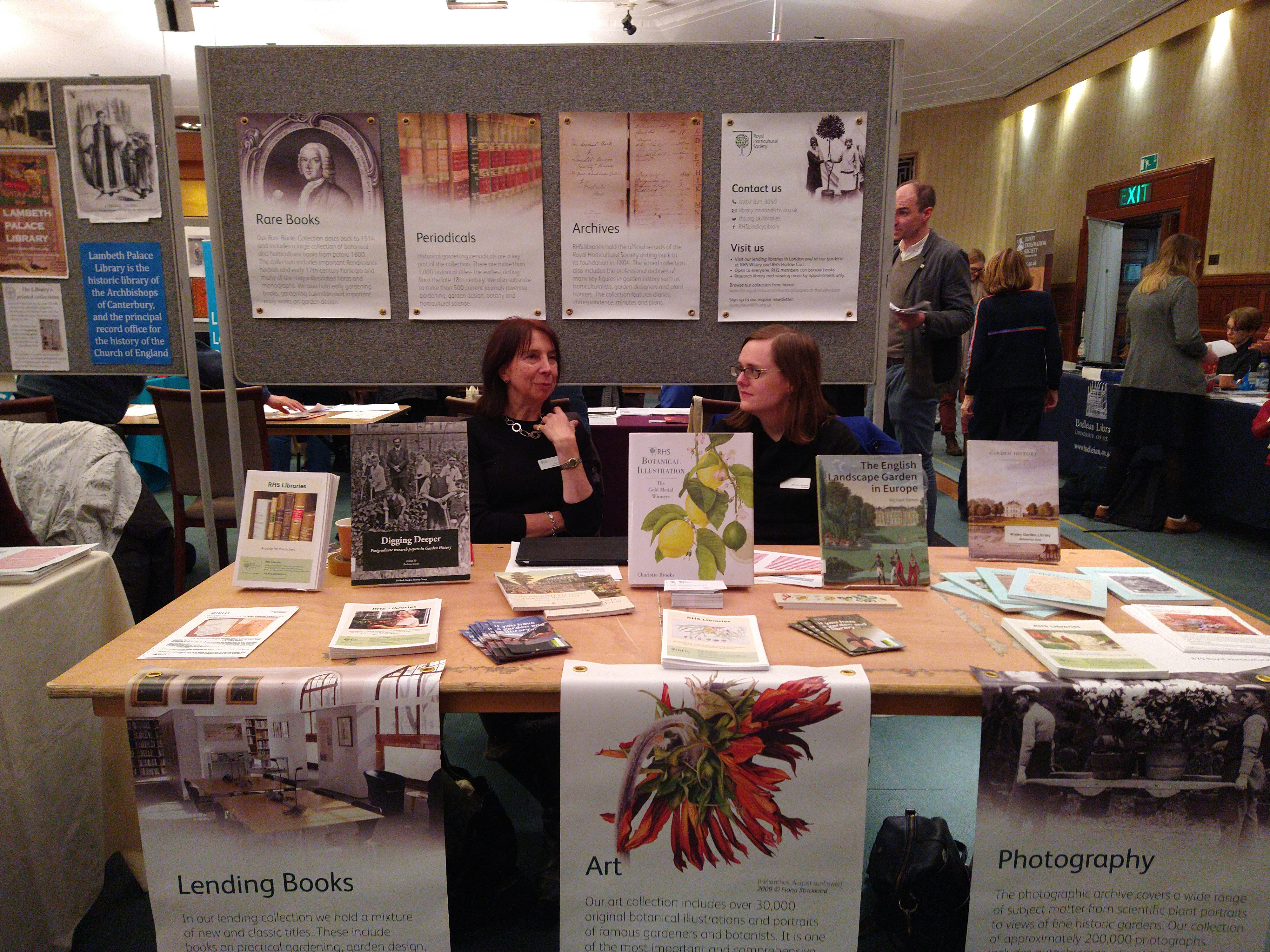 University of London School of Advanced Study History Day 2019